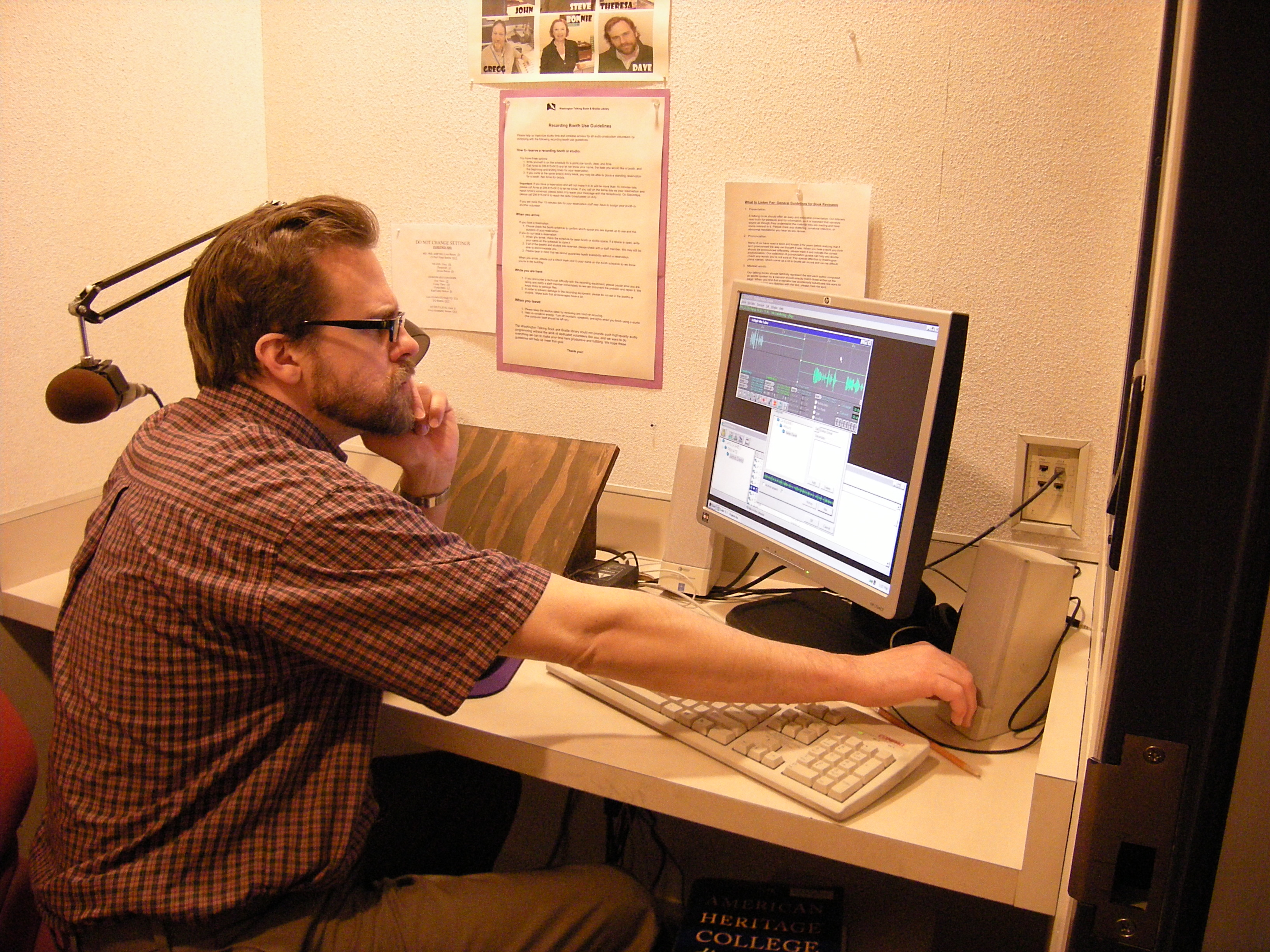 Recording studio, Washington Talking Book & Braille Library, 2021 Ninth Avenue, Seattle, Washington, USA. This studio is used to record books for the blind.